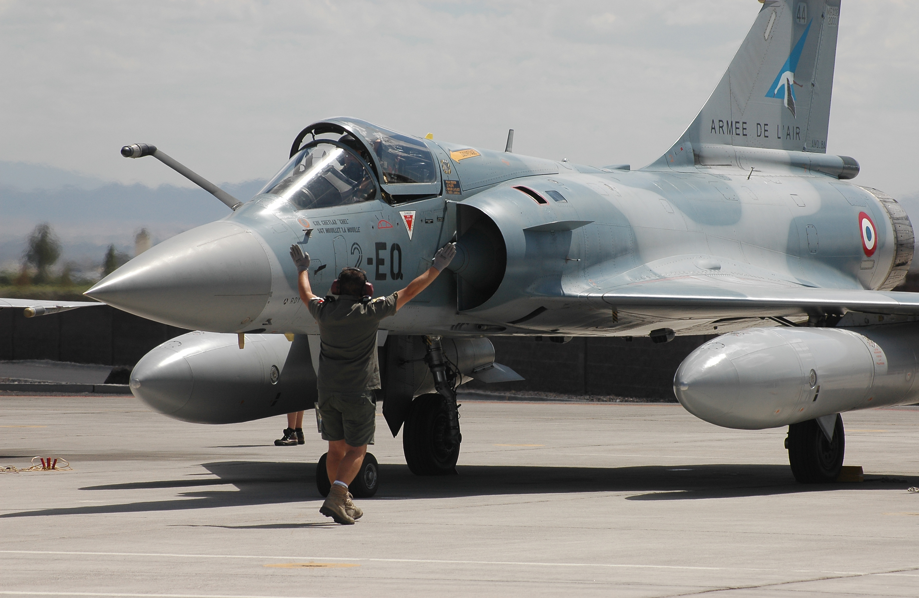 A French air force Mirage jet readies for takeoff during Red Flag exercises at Nellis Air Force Base, Nev., Aug. 8. U.S. and allied air forces are sharpening their large-force combat skills over the Nevada Test and Training Range Complex. Red Flag runs through Sept. 2. (U. S. Air Force photo/Technical Sgt. Bob Sommer)